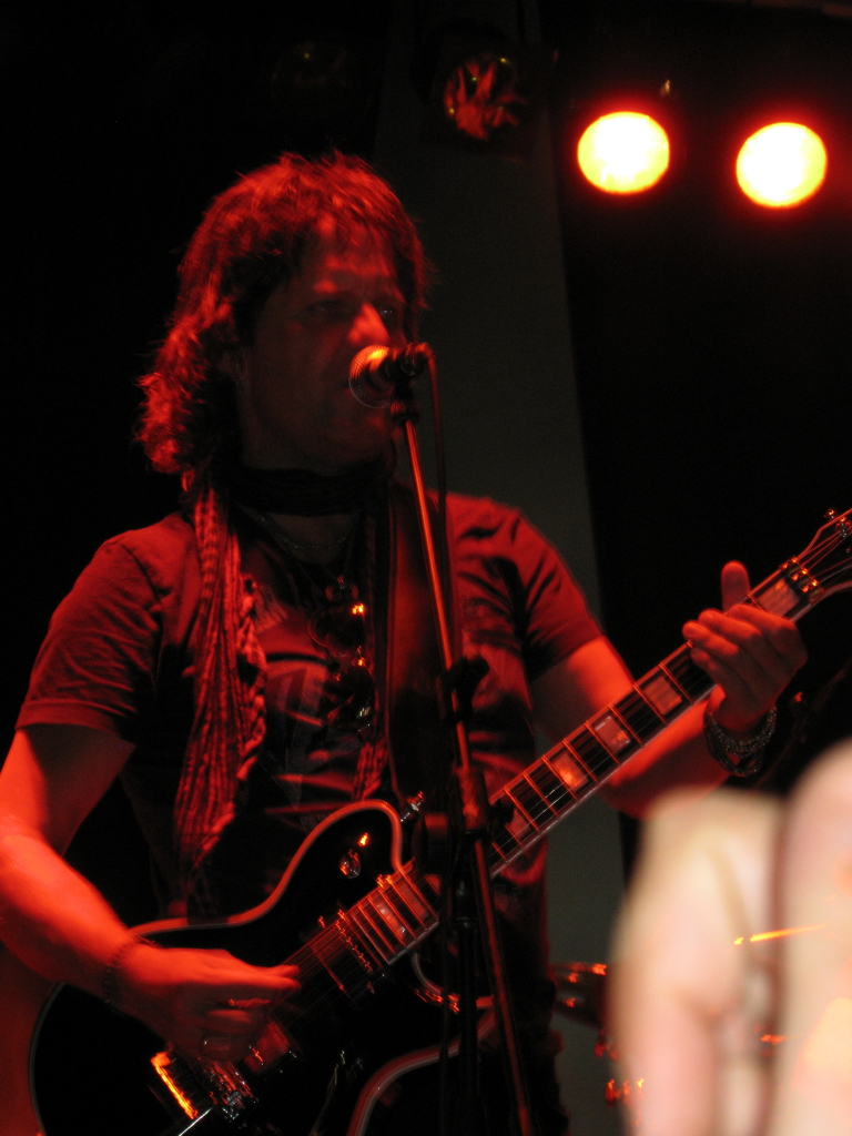 Kee Marcello at Monterotaro Rock Festival 2008 Casalnuovo Monterotaro (FG) Italy